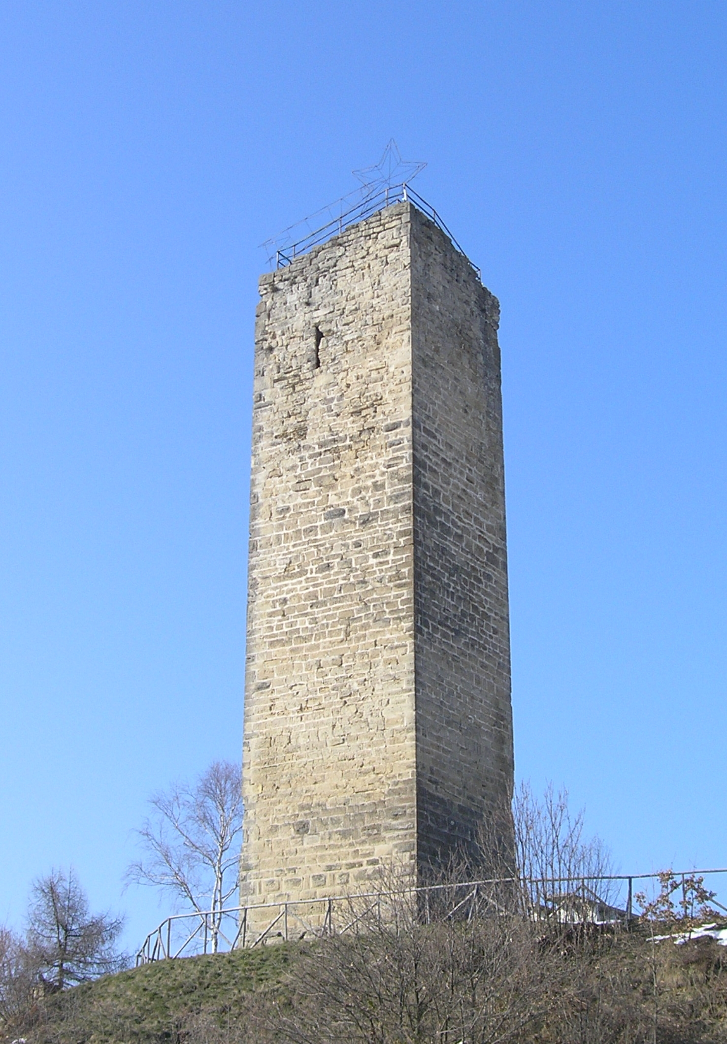 Castelnuovo di Ceva's tower (Italy)